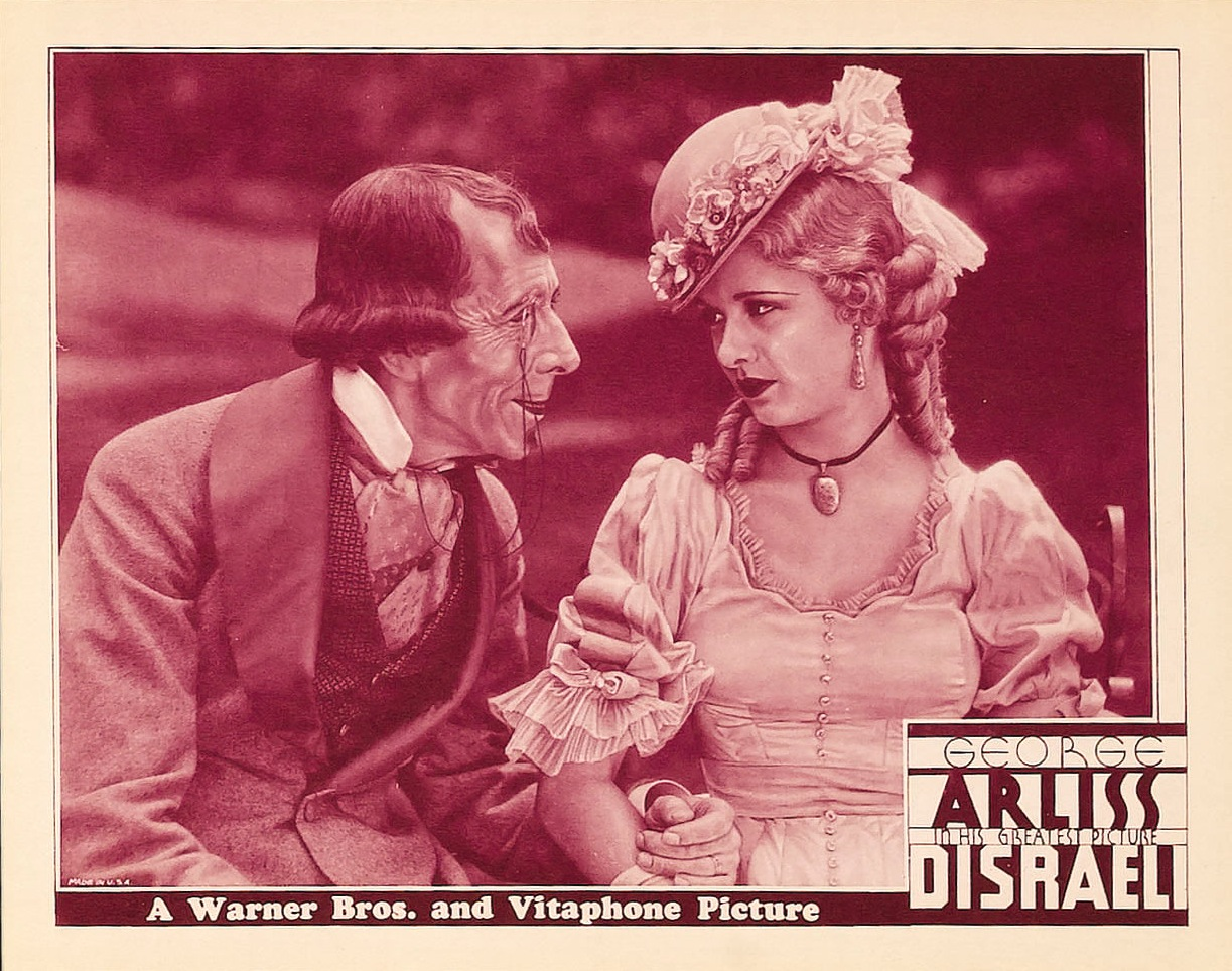 Disraeli is a 1929 American historical film directed by Alfred E. Green, released by Warner Brothers, and adapted by Julien Josephson and De Leon Anthony from the 1911 play Disraeli by Louis N. Parker. This is a contemporary lobby card for the film that clearly has no copyright notice, thus in the public domain.